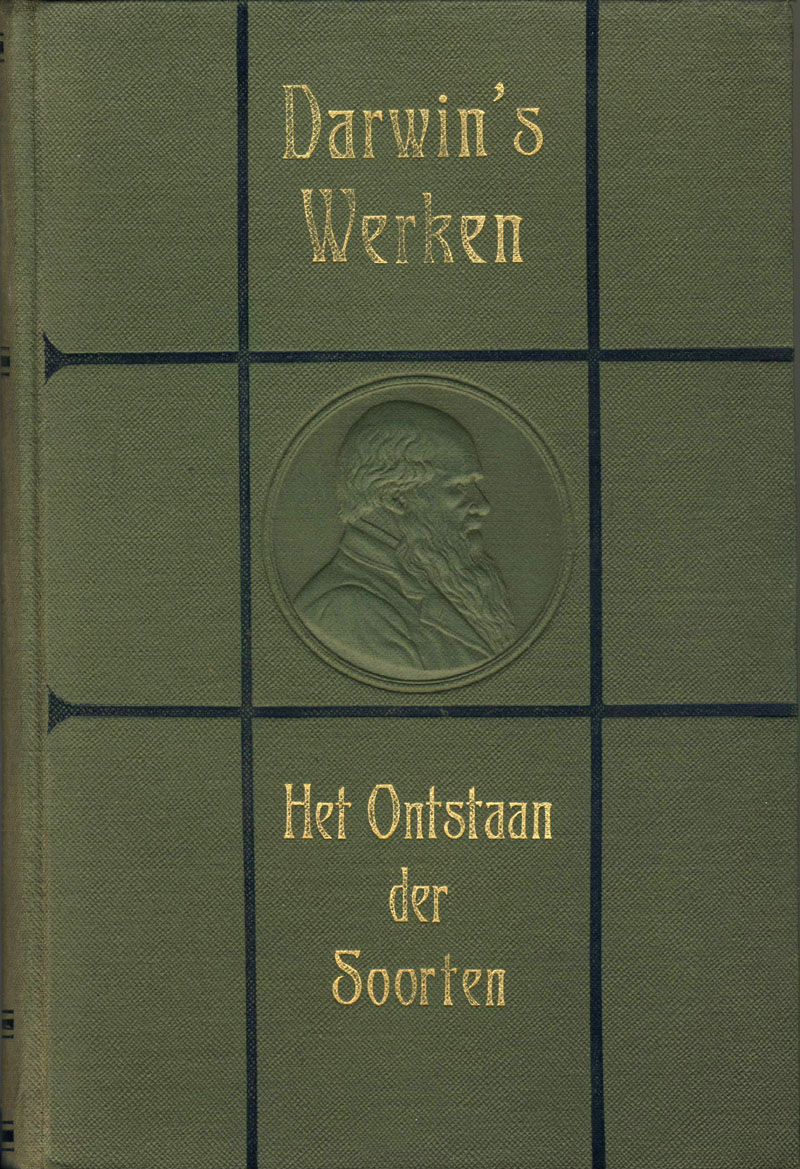 Het omslag van Charles Darwin Het Ontstaan der Soorten 4e druk 1913 Twee delen